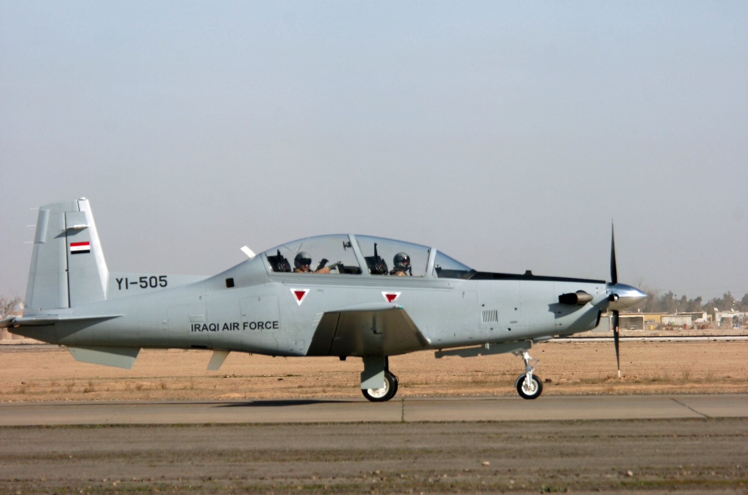 A T-6A trainer aircraft lands at the opening of the Iraqi Air Force (IqAF) College at Contingency Operating Base Speicher, Iraq, near Tikrit, Dec. 16. Fifteen of the aircraft, valued at $210 million, will be used to develop advanced aviation skills for Iraqi pilots as part of a new three-year curriculum at the IqAF College.